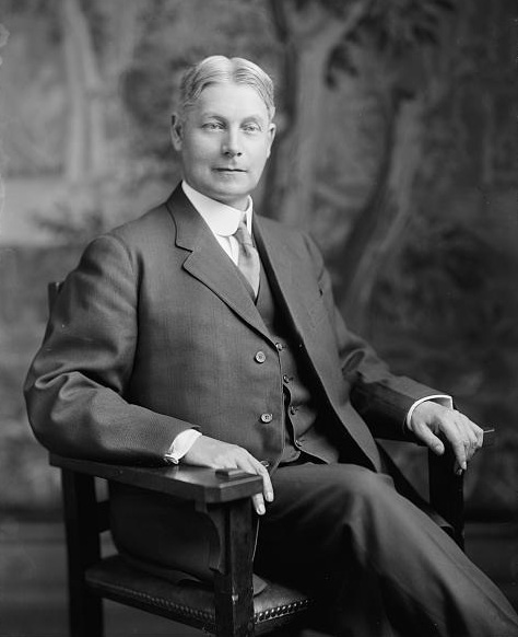 Steven B. Ayres, Congressman from New York